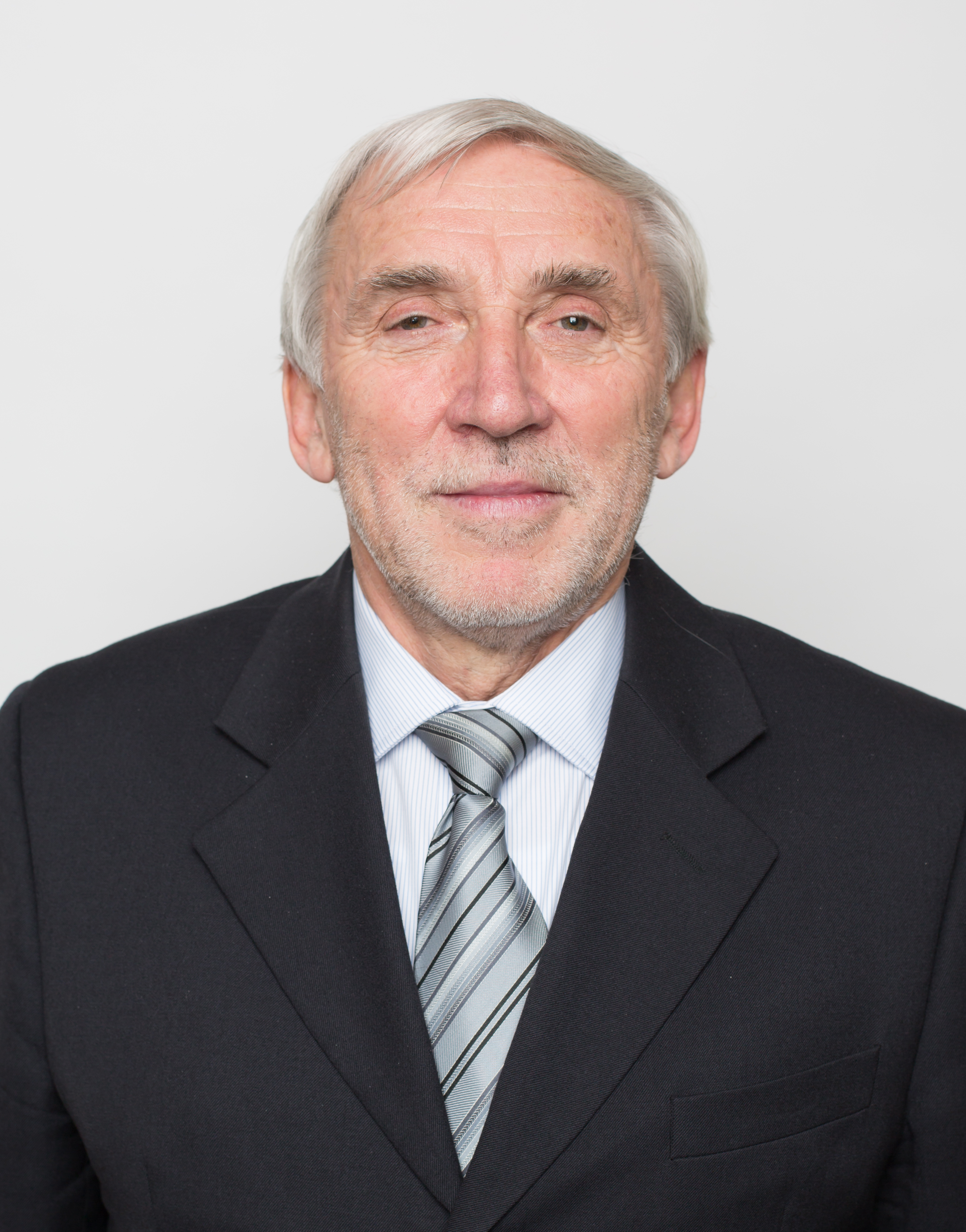 Mgr. Jiří Růžička, from 2016 member of the Senate of the Parliament of the Czech Republic